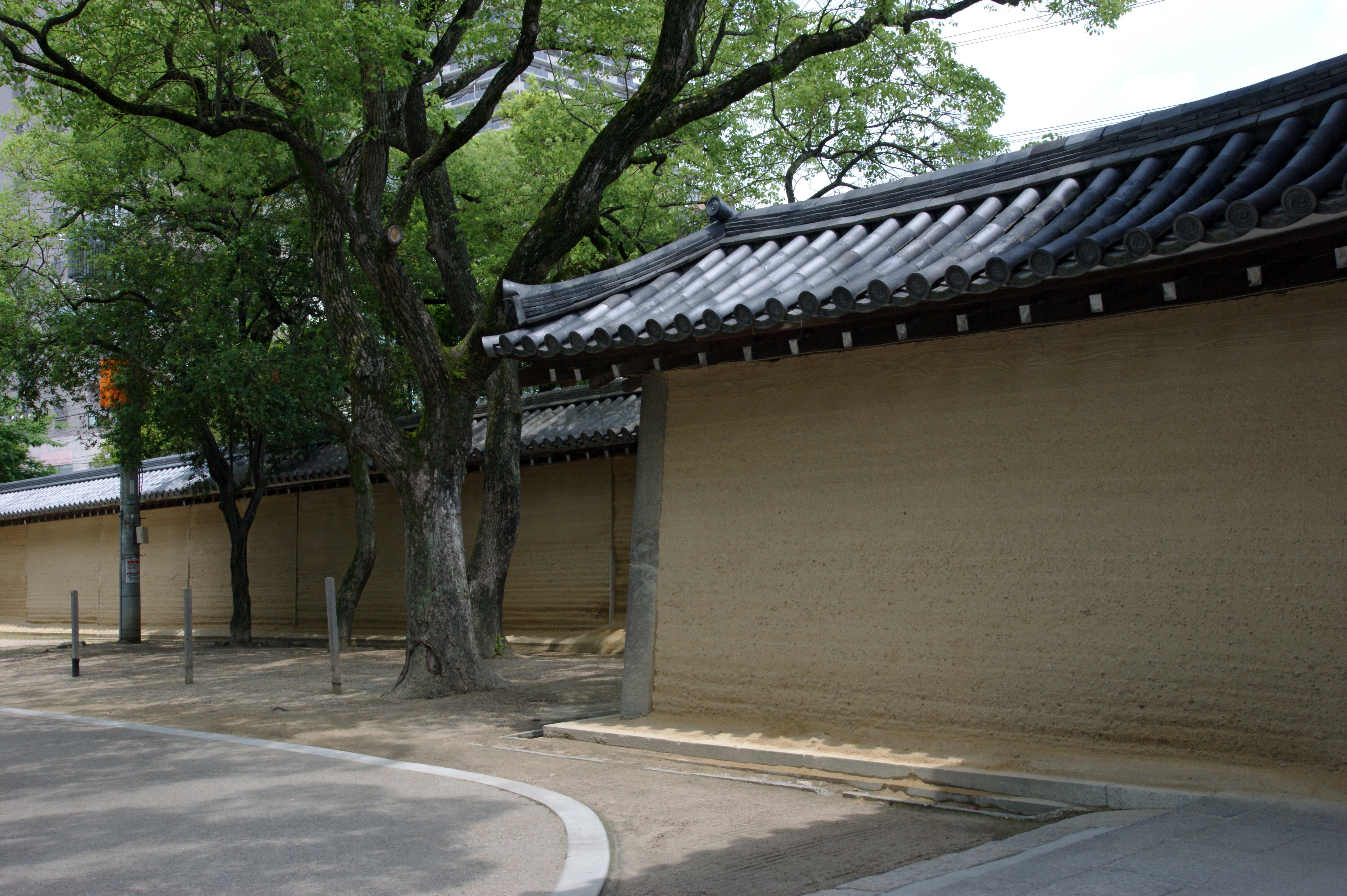 Nishinomiya-jinja in Nishinomiya, Hyogo prefecture, Japan